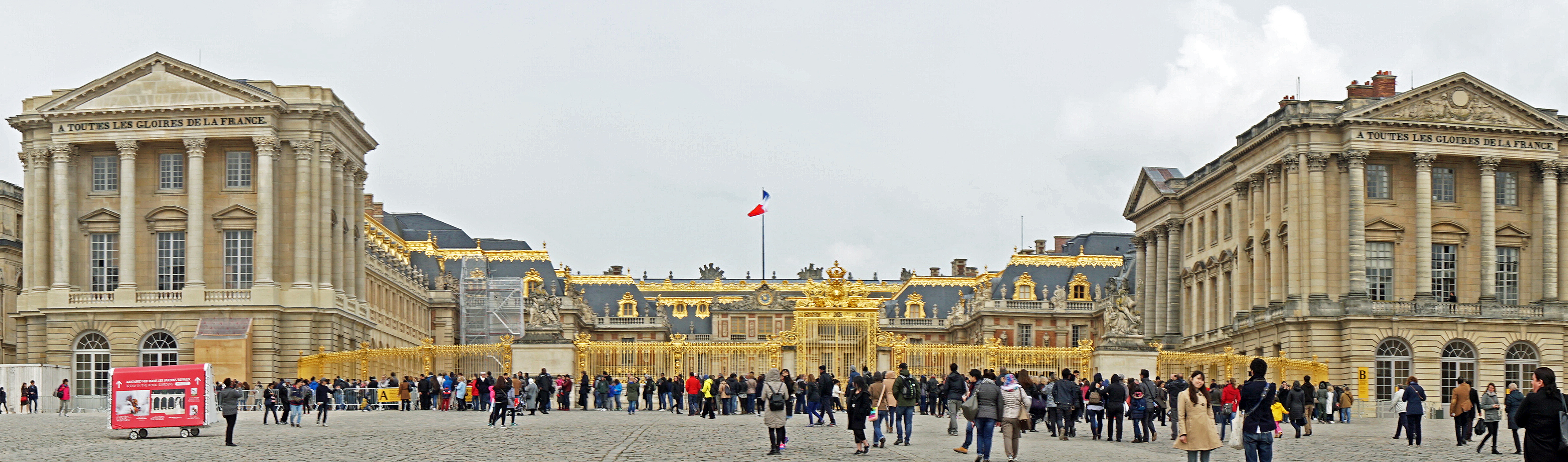 Exterior of Château de Versailles, France.